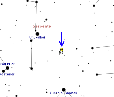 Map of M5